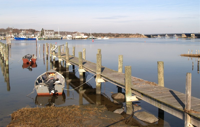 Westport River in winter, Westport, Massachusetts